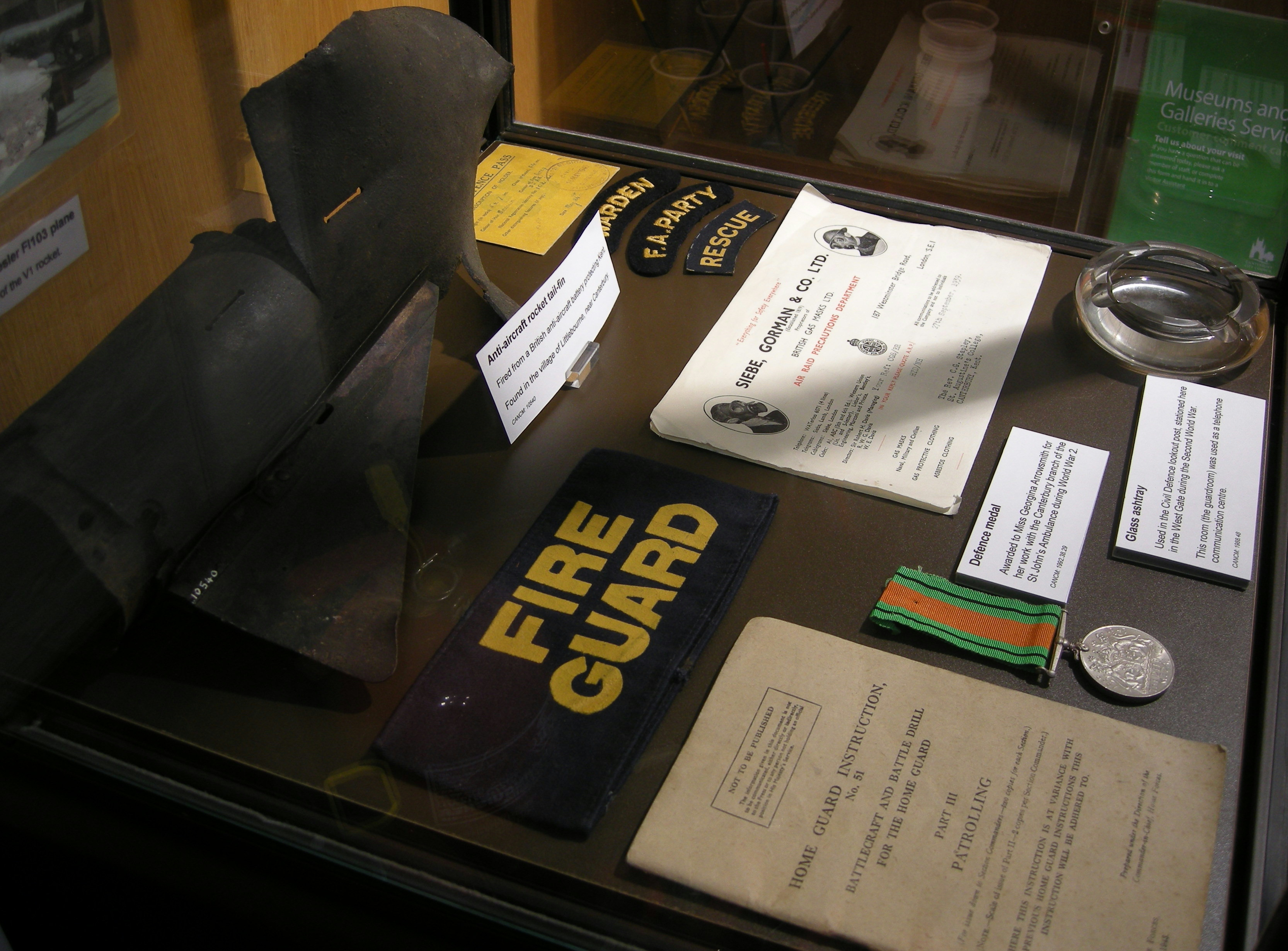 West Gate Towers and Museum, St Peter's Street, Canterbury, Kent. World War II Civil Defence display, including tail fin from anti-aircraft rocket, and ashtray used in the guardroom of the Westgate when it was used by Civil Defence as a telephone communication centre.